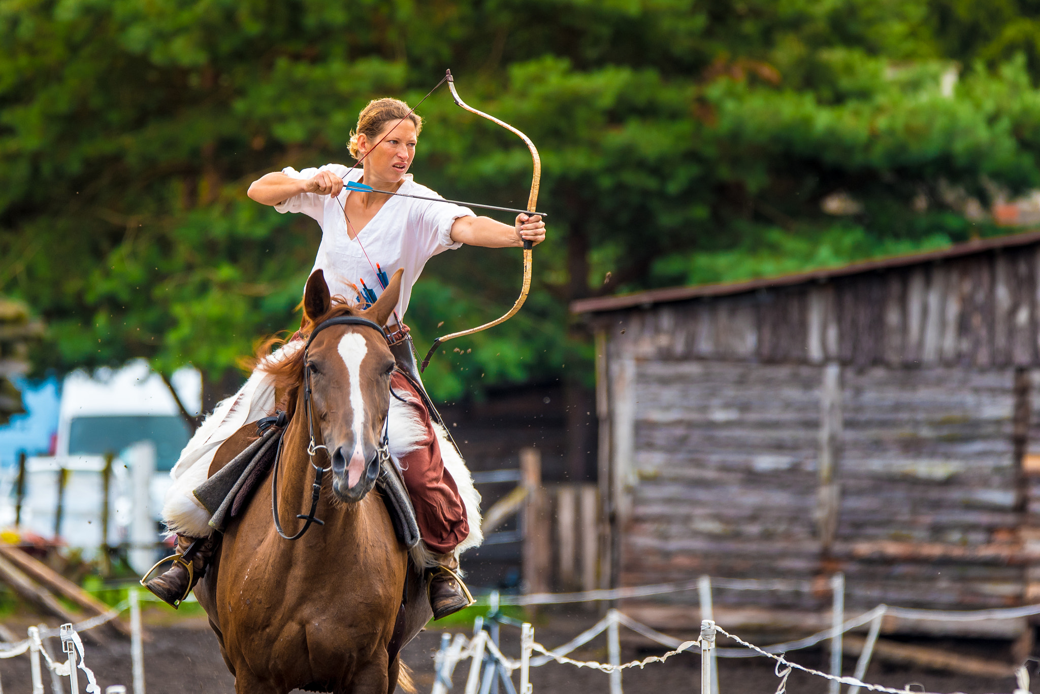 500px provided description: Horseback Archery [#horse ,#archery ,#horseback archery]